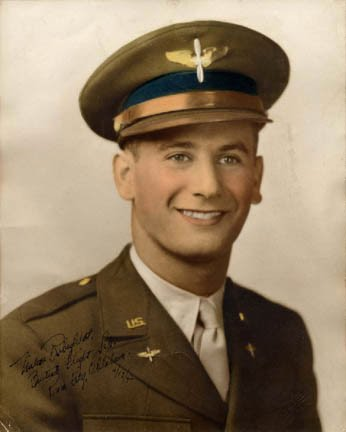 Official USAAF Photo of Milton Rubenfeld, 1942